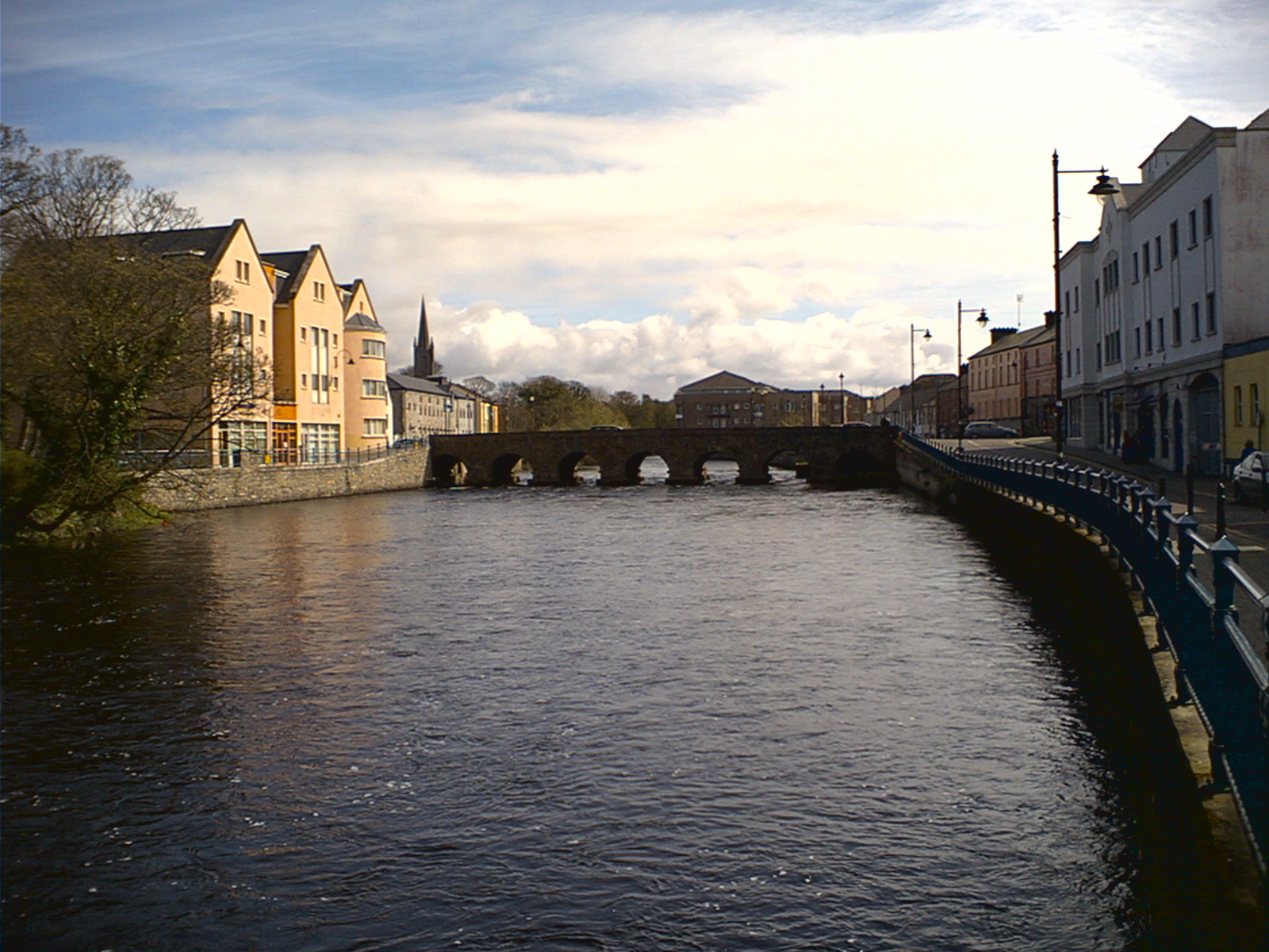 Sligo TownImage227.jpg